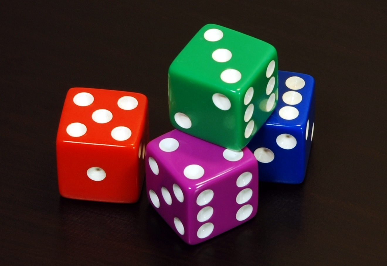 Four coloured 6 sided dice arranged in an aesthetic way. All six possible sides are visible.